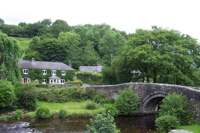 Huckworthy Bridge Taken looking towards the post office and hotel